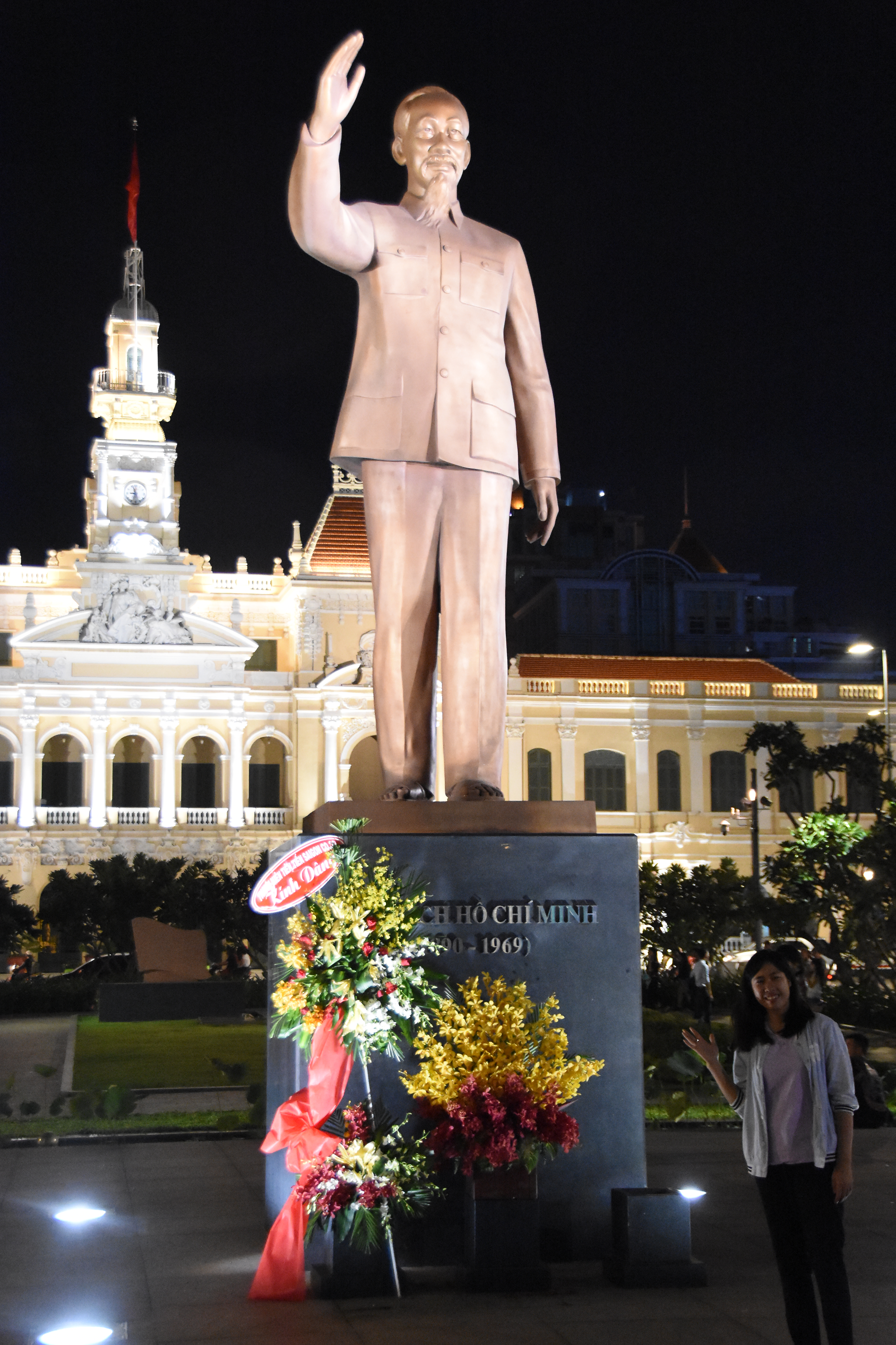 Uncle Ho's statue at the end of the Nguen Hue Walking Street is another favourite selfie spot in Saigon, and the bouquet of flowers is probably placed there for a reason, by someone, to add colour to their selfies. And no, that lovely lass is not waving to me, her partner is standing right next to me and is taking her picture, I just decided to go in and stand next to her, along the with other photographers at the site, so that wave and smile is for the person next to me! This picture was taken in less than ideal conditions hand held and without flash, so please excuse the mediocre photo quality. (Saigon/ HCM, Vietnam, Nov. 2016)